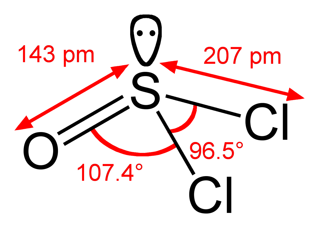 Structure and dimensions of the thionyl chloride molecule, SOCl2. The dimensions given are the averages of dimensions determined by microwave spectroscopy and x-ray crystallography. Microwave spectroscopic data from J. Mol. Struct. (1983) 101 233-238. X-ray crystallographic data from Acta Cryst. (1988). C44, 926-927.